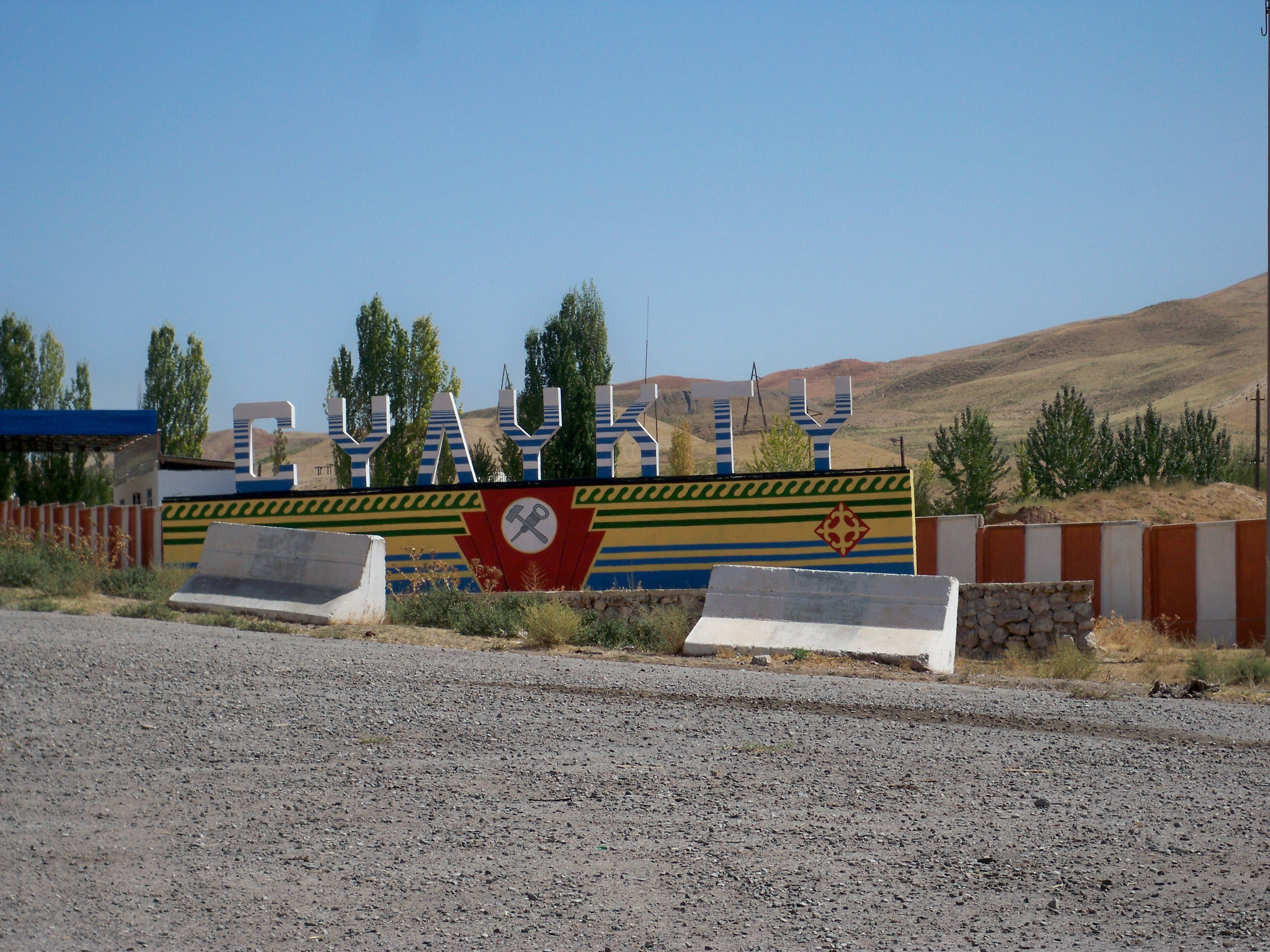 The sign in the western end of Sulyukta.